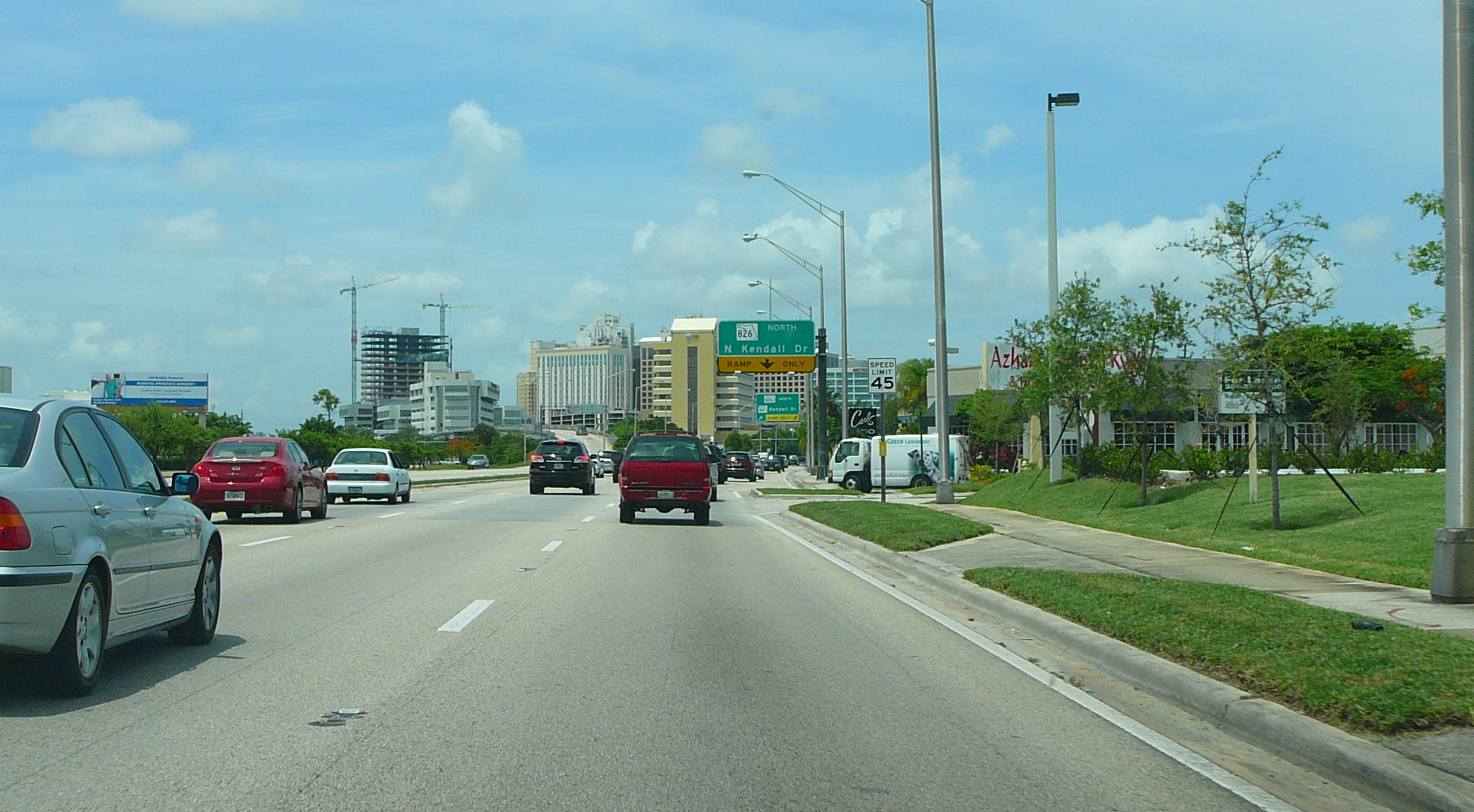 Portion of the South Dixie Highway also called the Pinecrest Parkway. It divides unincorporated Kendall on the left with the village of Pinecrest on the right. The beginning and ending on-off ramps to the Palmetto Expressway can be seen up ahead. 7/10/2008.